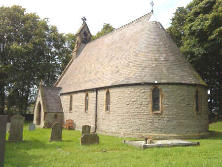 Parish church of St Michael and All Angels, Sheldon, Derbyshire, seen from the southeast